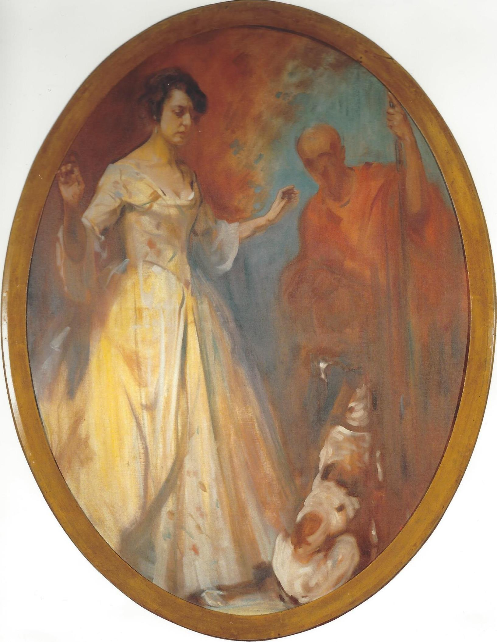 Painting by Umberto Martina; Spring 111x156 cm, commissioned circa 1919 by Giulio Ciriani.